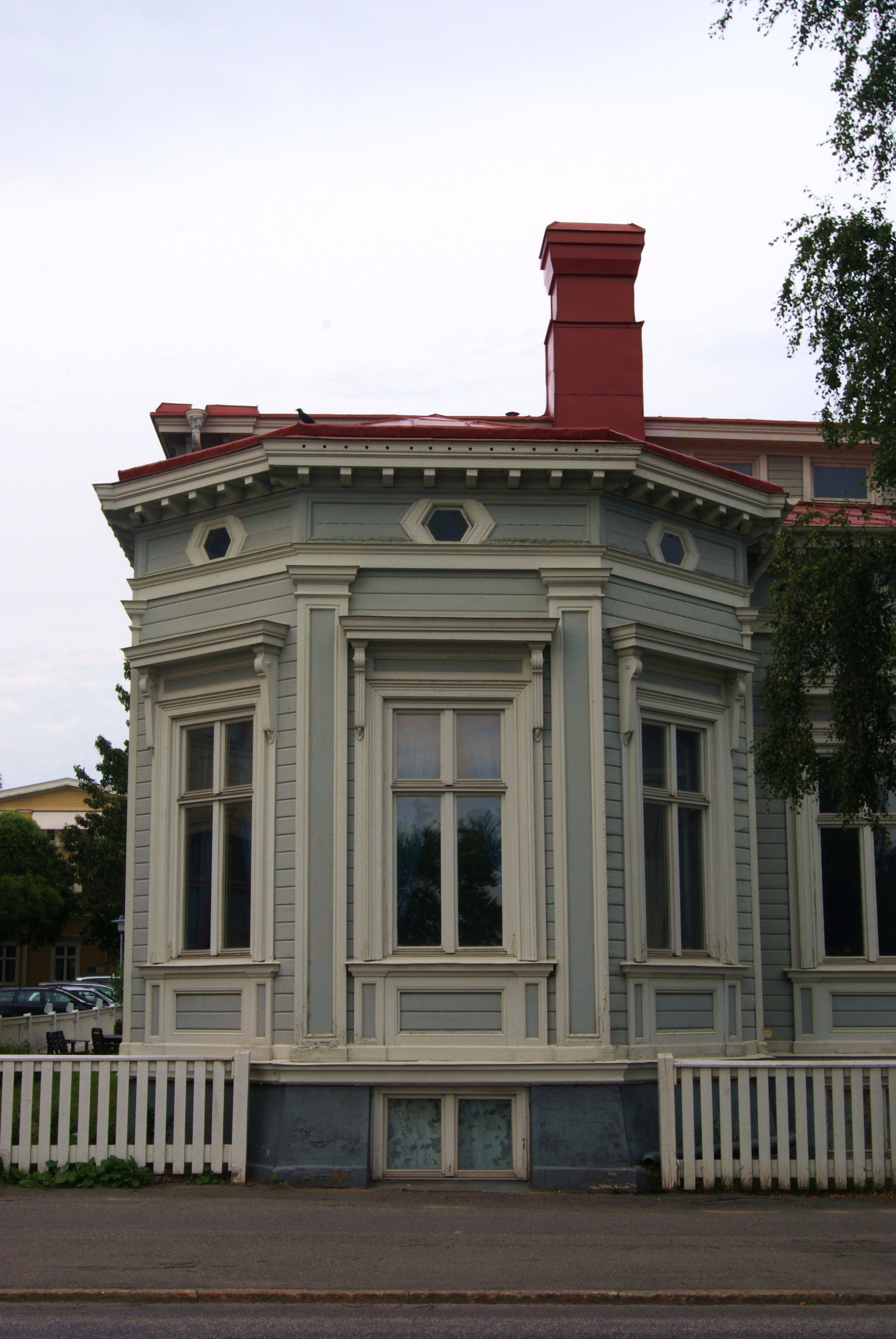 This house was erected by lieutenant Leopold Grahn in 1882. Towards the street Storgatan the house have corner pavilions in French pleasure palace stile. This picture shows one of the corner pavilions.